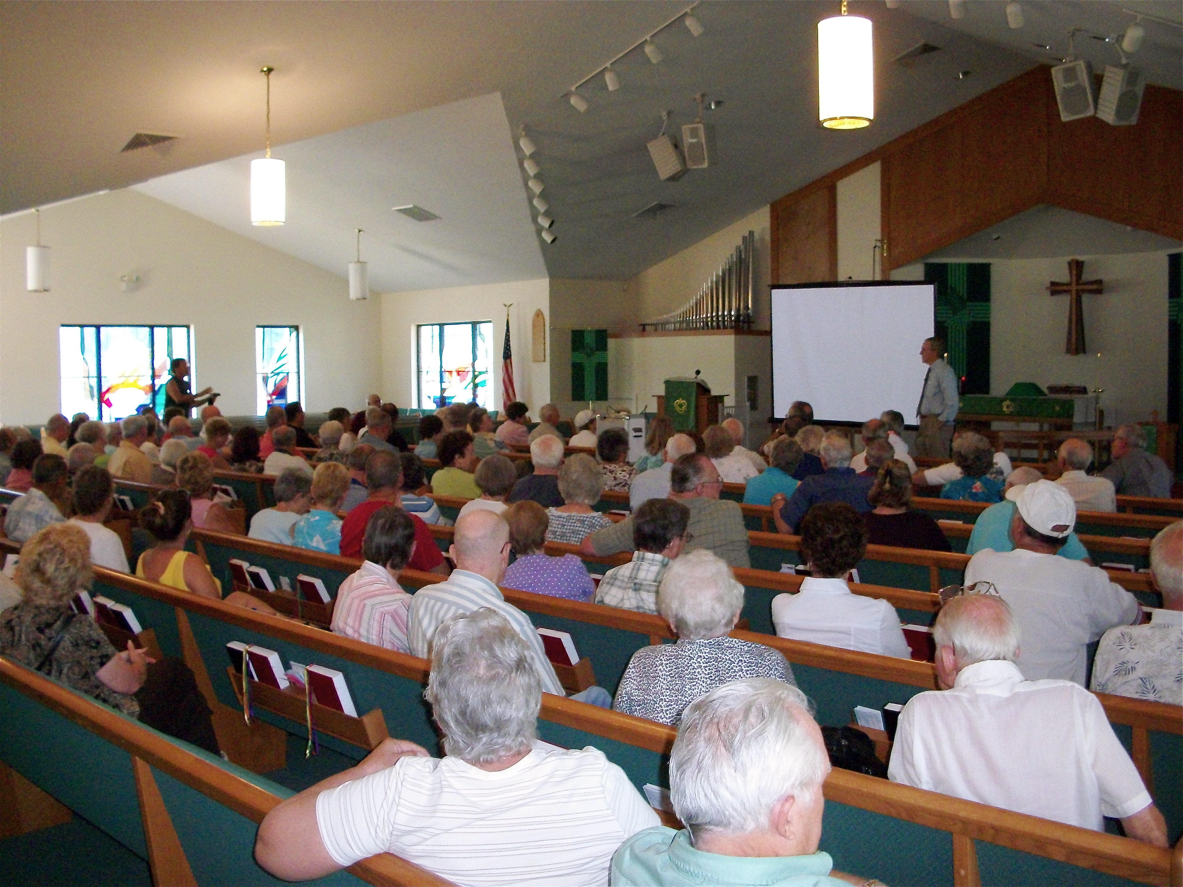 Stearns at town meeting